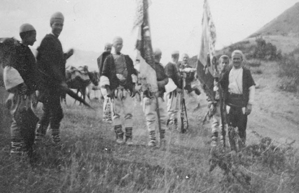 Albanian wedding party in the mountains of Upper Reka, Macedonia